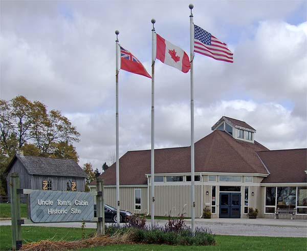 Visitor Center of Uncle Tom's Cabin. Photographed by Tony White, and used here with permission.